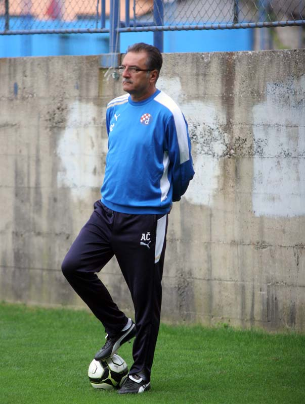 Ante Cacic in charge of Dinamo Zagreb